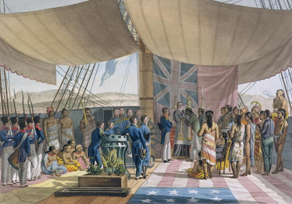 Illustration of the Baptism of Kalanimoku, the "Prime Minister of the Sandwich Islands" on August 12, 1819 abord the French ship L'Uranie which was on a scientific voyage under Louis de Freycinet (1779–1842). Original sketch by Jacques Arago was probably enhanced as an engraving for the book.